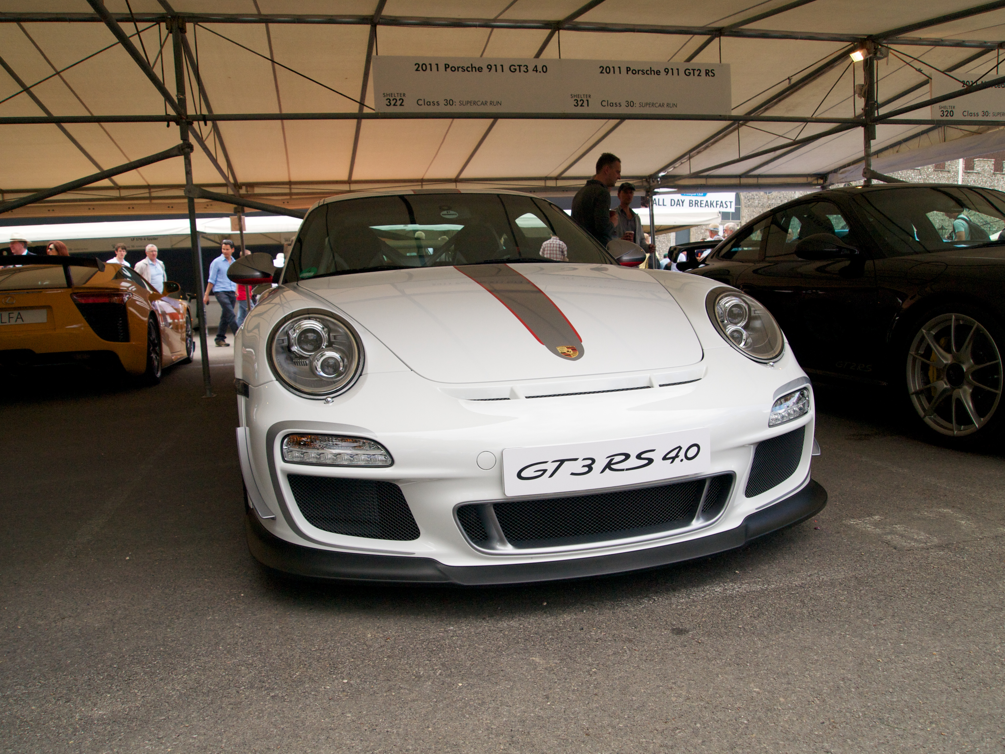 White Porsche 911 GT3 RS 4.0 (Type 997, MY 2011/2012) at the 2011 Goodwood Festival of Speed.